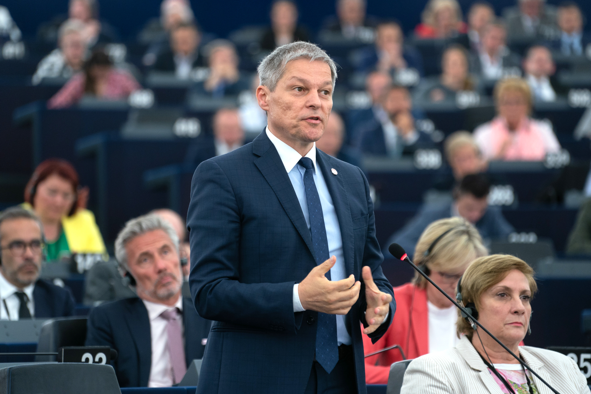 This photo is free to use under Creative Commons license CC-BY-4.0 and must be credited: "CC-BY-4.0: © European Union 2019 – Source: EP". No model release form if applicable. For bigger HR files please contact: webcom-flickr(AT)